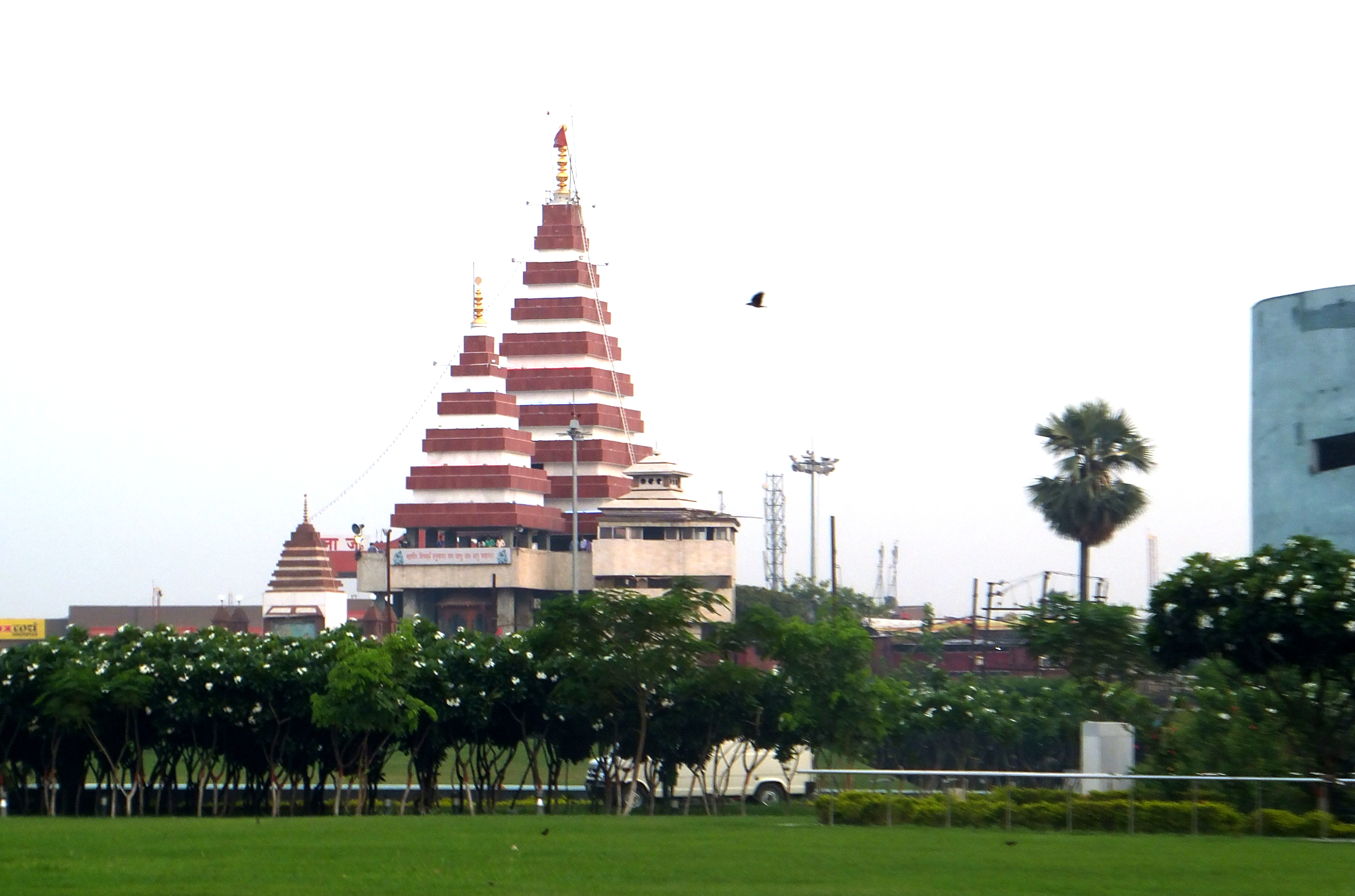 View of Mahavir Mandir from Buddha Smriti Park in Patna, India